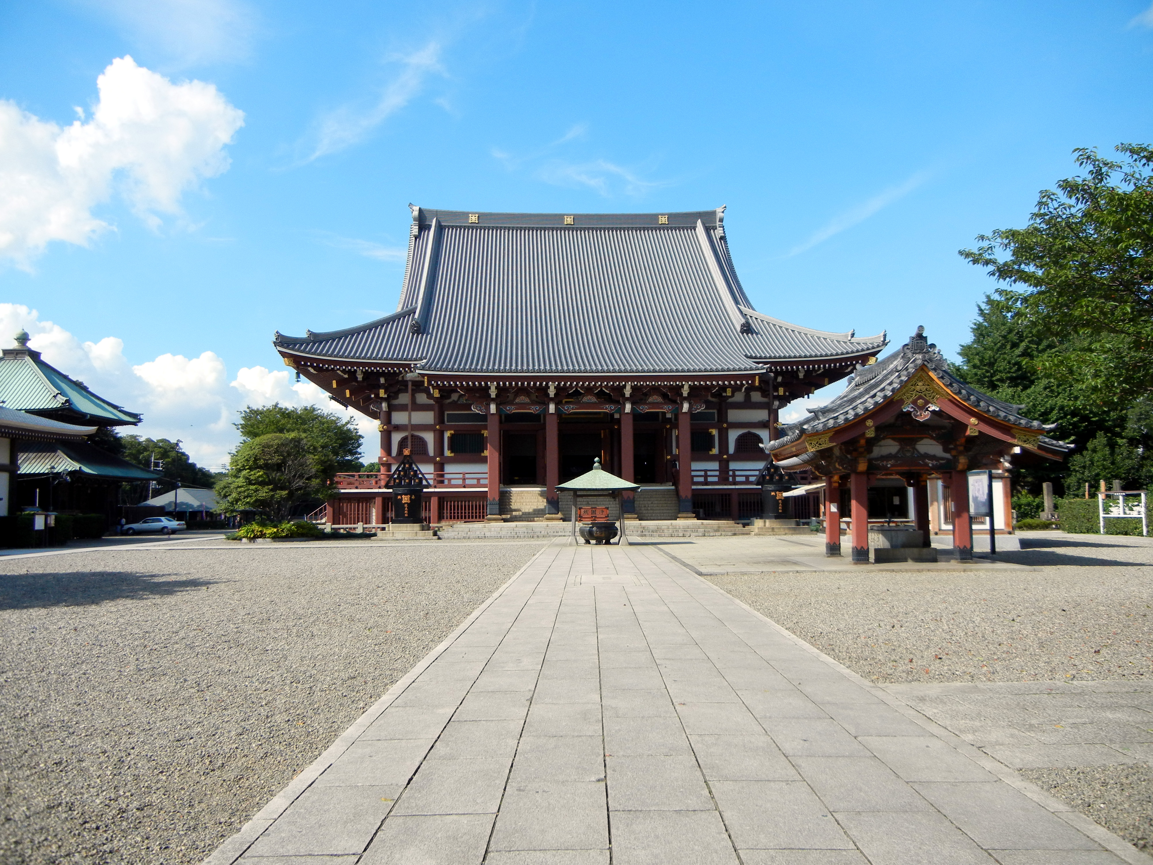 Ikegami Honmon-ji precincts